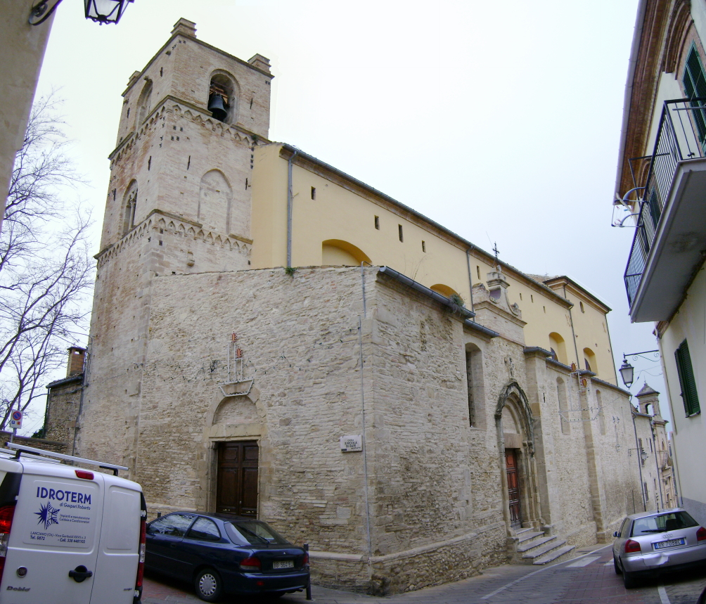 The church of San Nicola di Bari, Lanciano, province of Chieti, Abruzzo